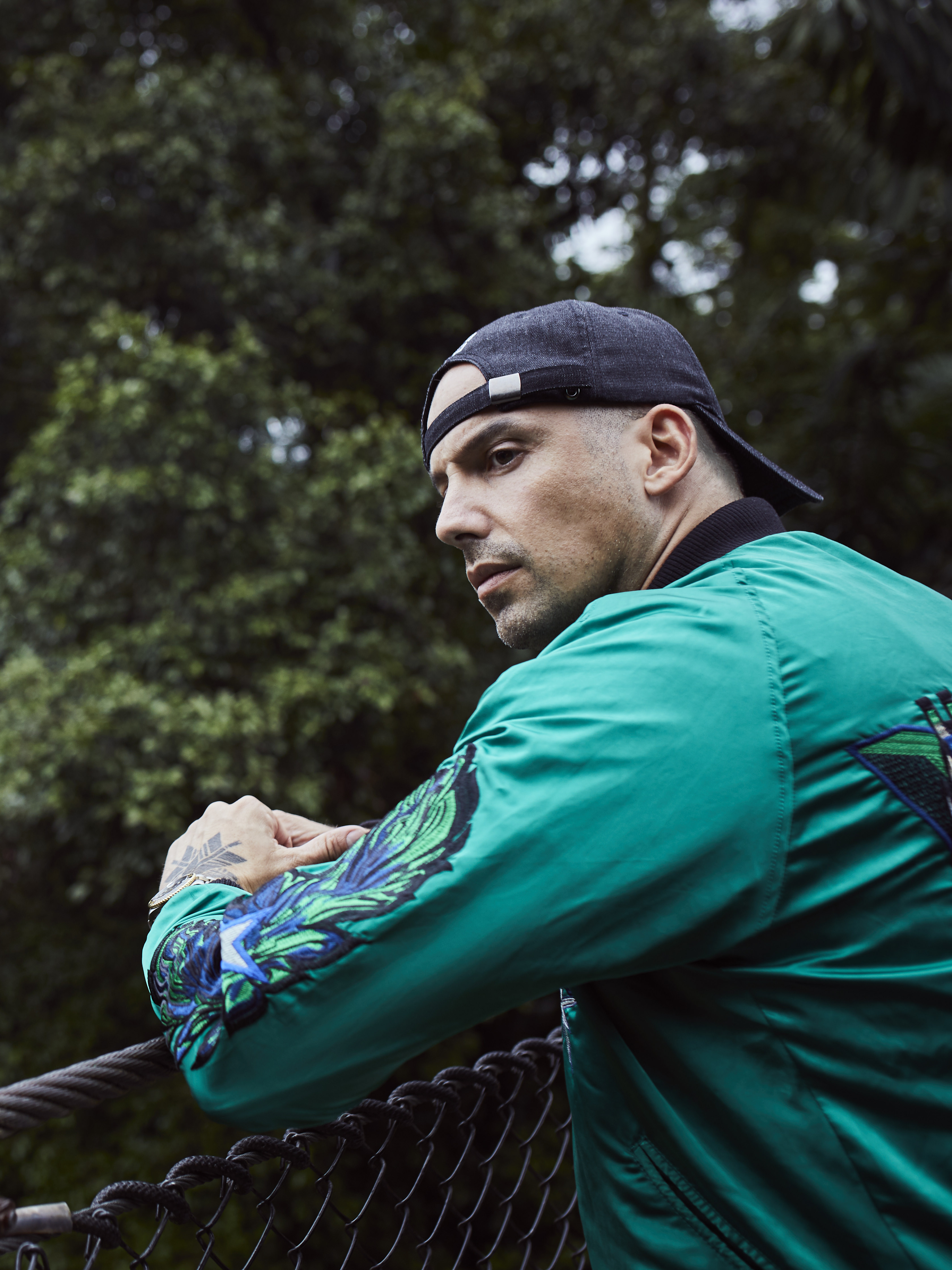 RAF Camora in Costa Rica while working on his new Album "Palmen aus Plastik 2" together with Bonez MC